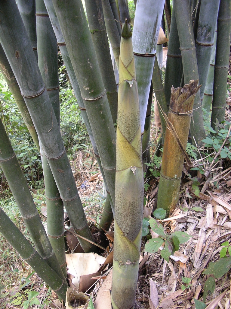 Bambusspross, bamboo shoot, Guangxi, China